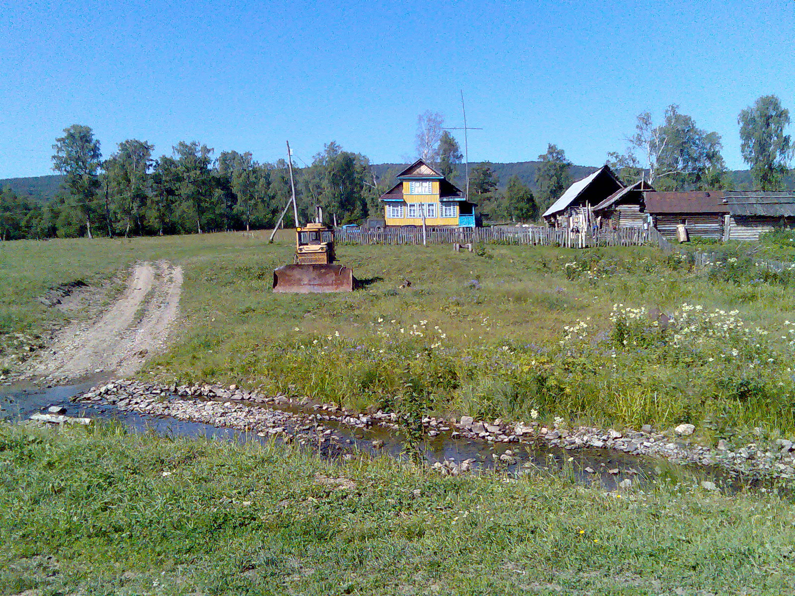 Village Bzyak, Beloretsky District